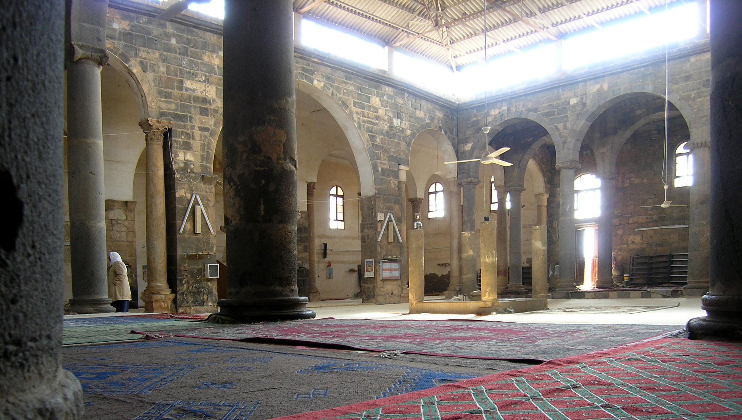 this ancient mosque (its age has been disputed and still is, I believe) derives much of its charm from the contrast between its highly disciplined plan and its expressive and almost chaotic use of roman spolia.